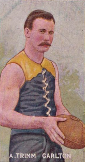 Cigarette card of Albert Trim from the Sniders & Abrahams 1906 series